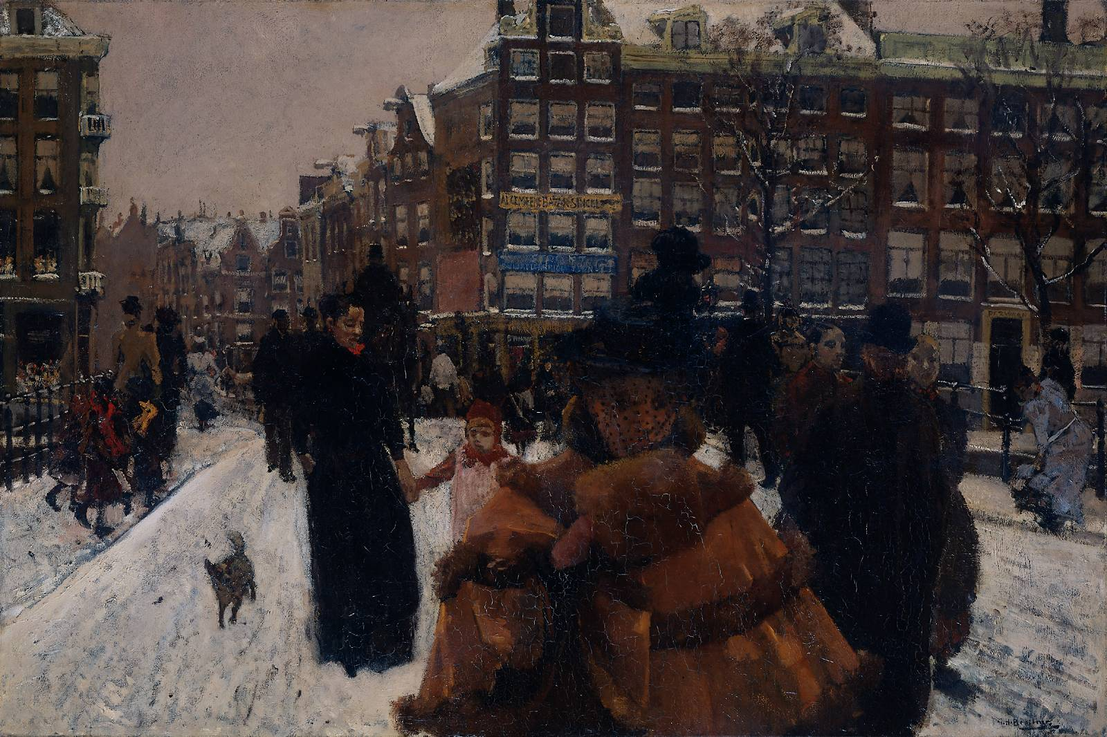 The Singelbrug near the Paleisstraat in Amsterdam. Oil on canvas, 100 cm x 152 cm